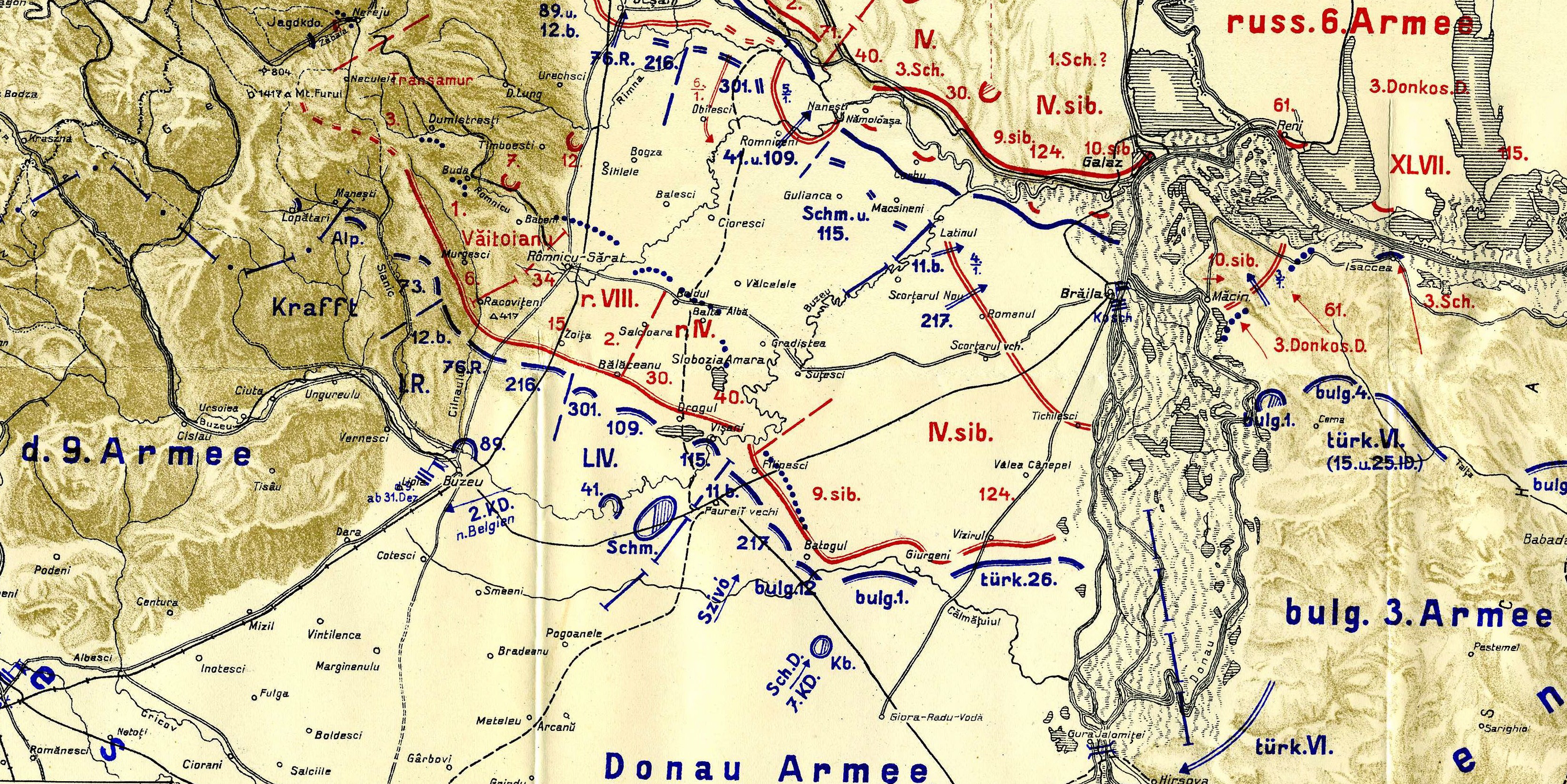 Romanian Front in WWI - The military operations on the Râmnicu Sărat-Viziru alignment, 1916